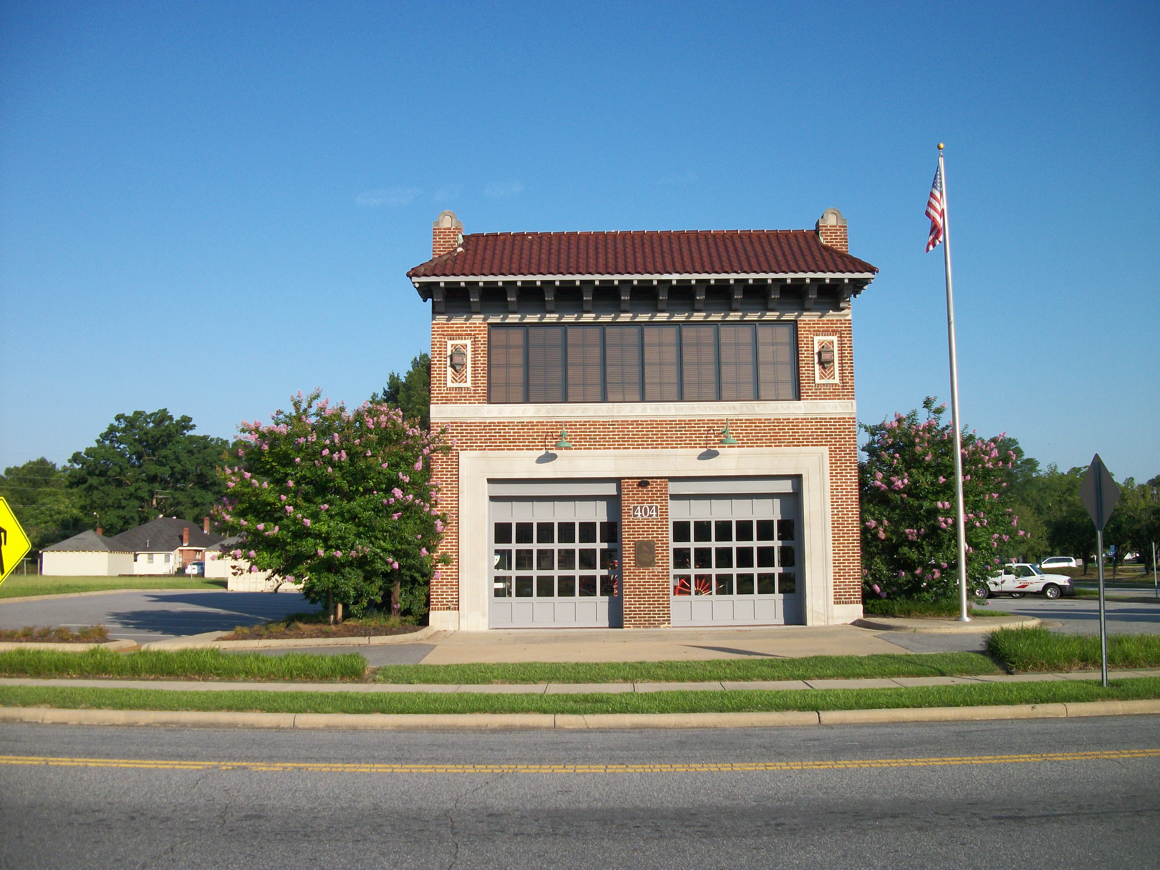 The 1924-built Rocky Mount fire house, now a local fire museum and EMS office in Rocky Mount, North Carolina on U.S. Route 301 Business (Rocky Mount, North Carolina). This is located across from the historic Rocky Mount (Amtrak station), and I suspected that it was a fire museum, when I noticed the 19th and early-20th Centruy apparatus, not to mention the sidewalk in front of the driveway, and a city link confirmed this was the case.